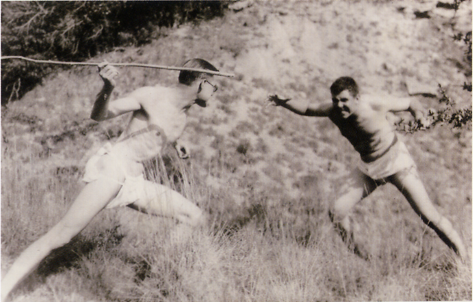 Photograph of Robert E. Howard. Tevis Clyde Smith (left) and Robert E. Howard (right) in a photograph entitled "Spear and Fang."